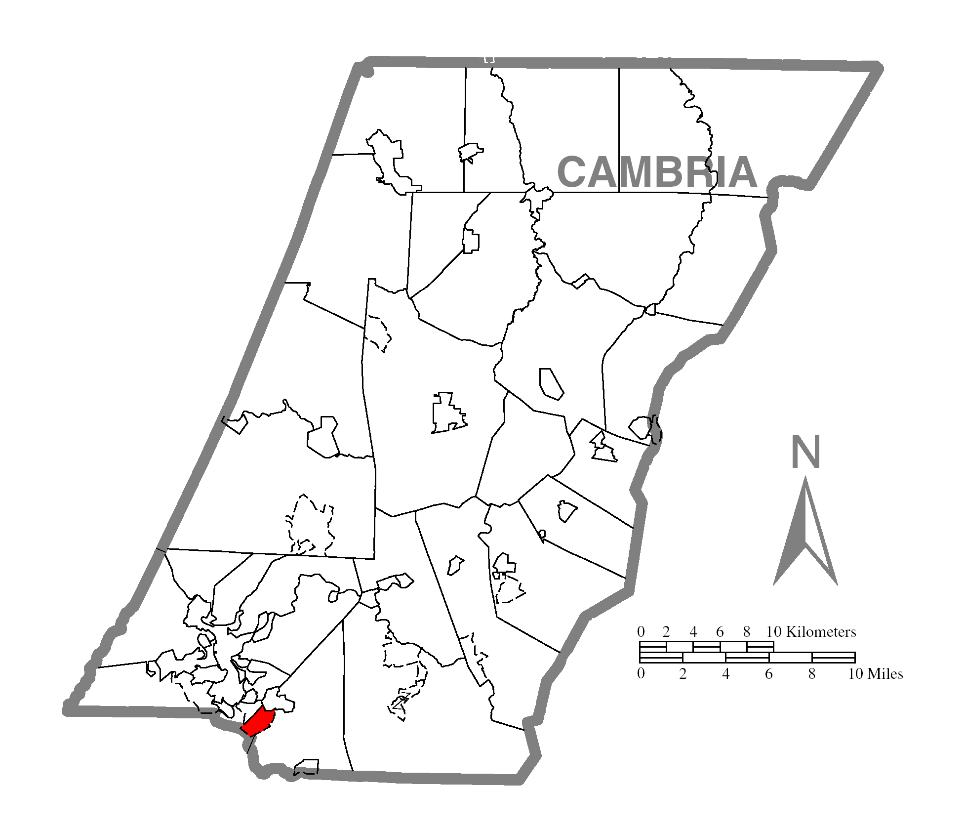 A map of Cambria County showing Belmont, Pennsylvania (alternate) highlighted on the map.